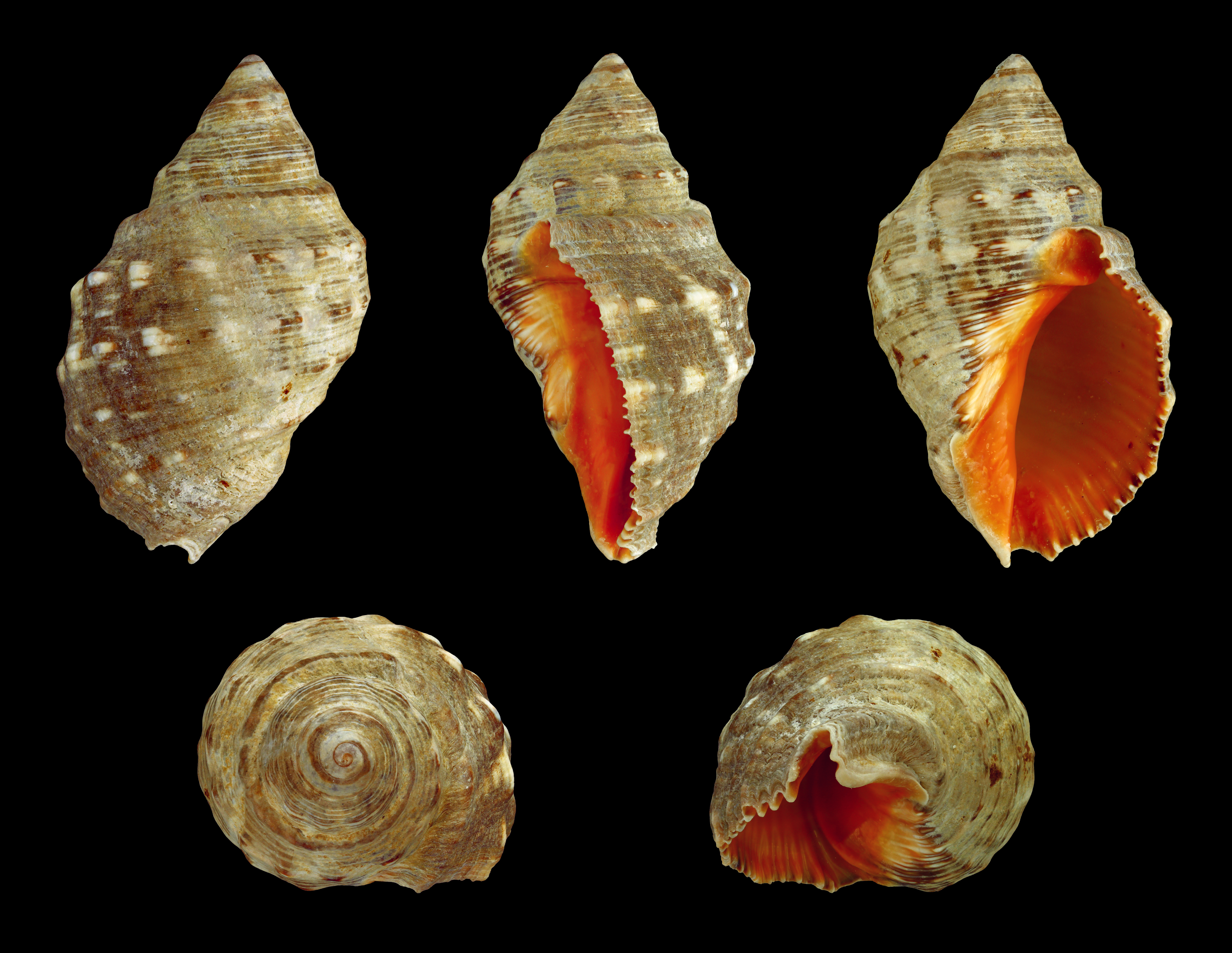 Red-mouthed Rock Shell; Length 4.9 cm; Originating from Charco del Palo, Lanzarote, Canary Islands, Spain 29°4′59.33″N 13°27′2.12″W / 29.0831472°N 13.4505889°W; Shell of own collection, therefore not geocoded. Dorsal, lateral (right side), ventral, back, and front view.